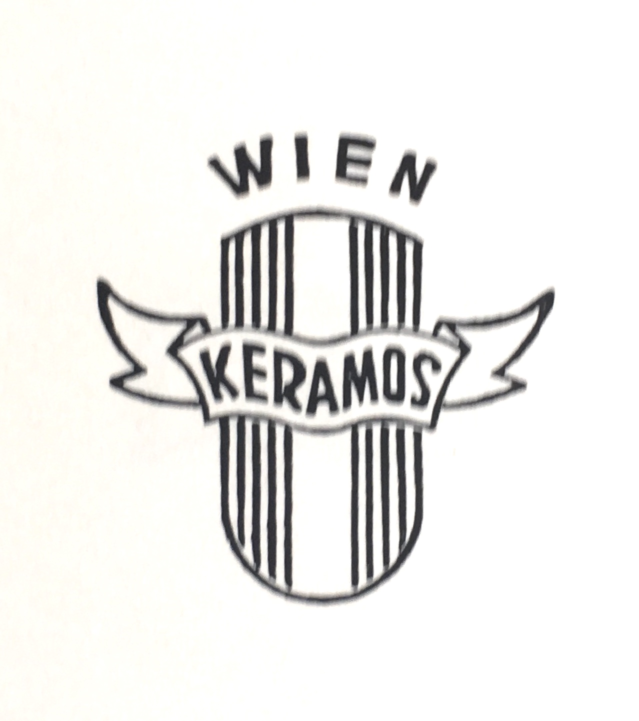 Keramos Marke